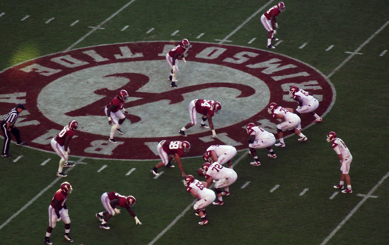 Alabama Crimson Tide line up on defense against the Arkansas Razorbacks at the midfield of Bryant–Denny Stadium in Tuscaloosa, Alabama.